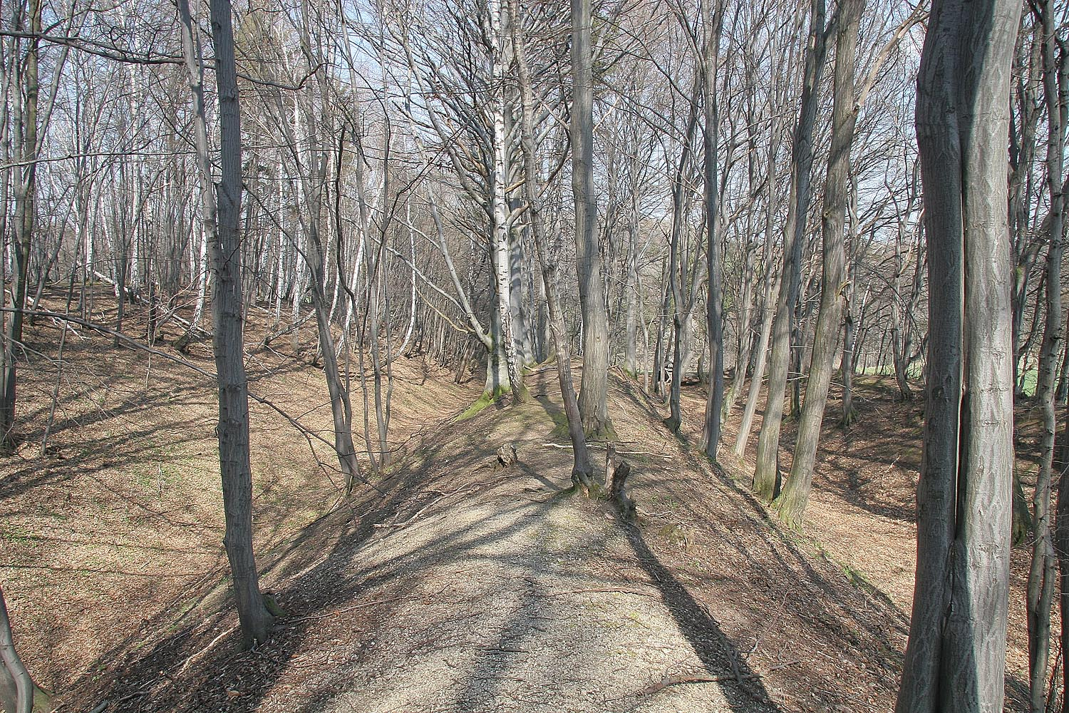 Celtic oppidum from 5th century BCE, České Lhotice, Czech Republic autor:Prazak datum: 1. 4. 2007